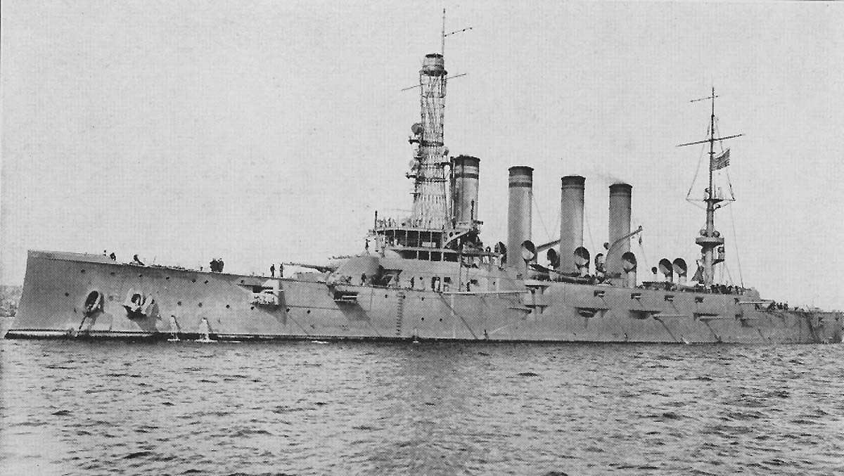 US Navy photo taken from NavSource (